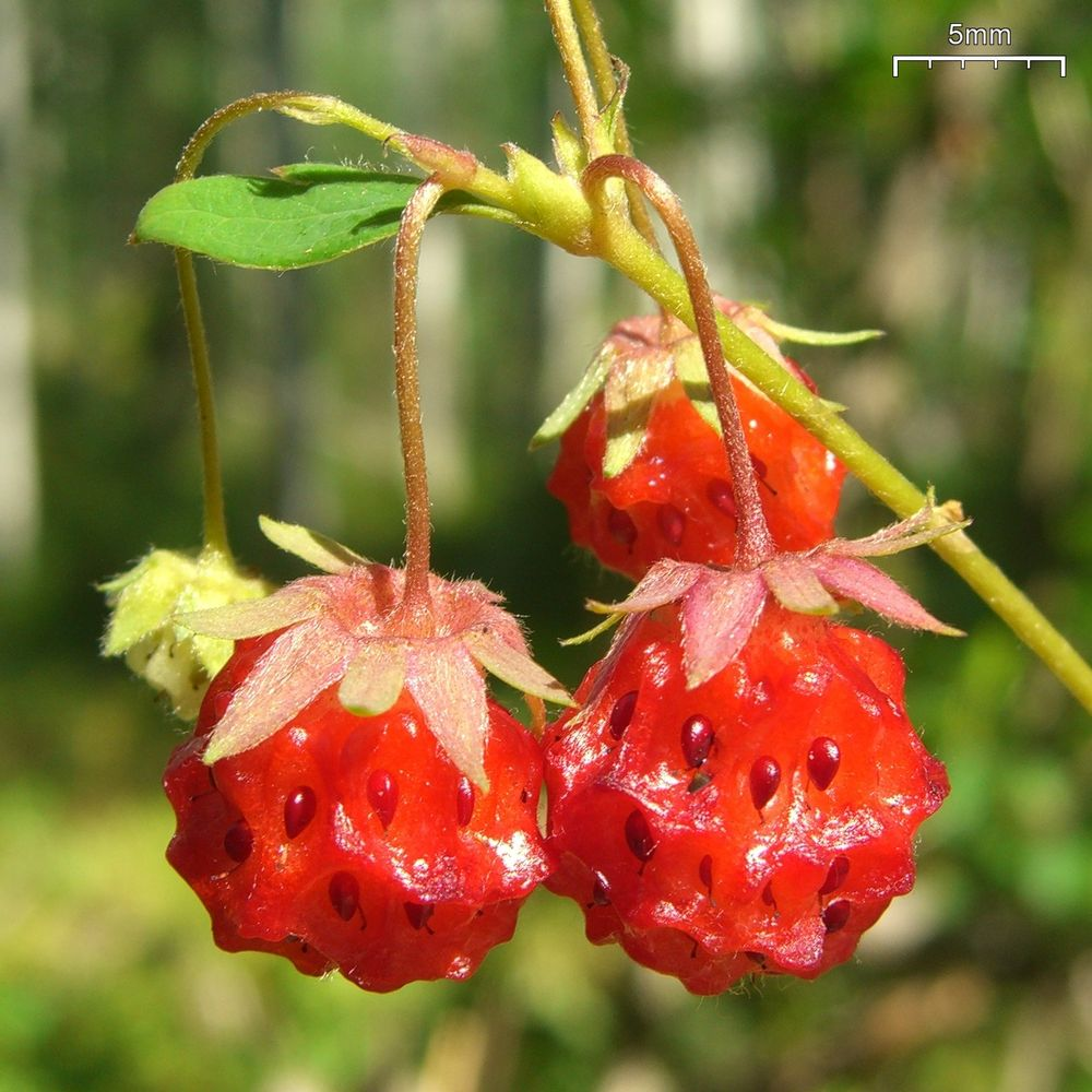 Fragaria virginiana Duchescne 20090717.12 Edgewood Blue, Wells Gray Park, BC